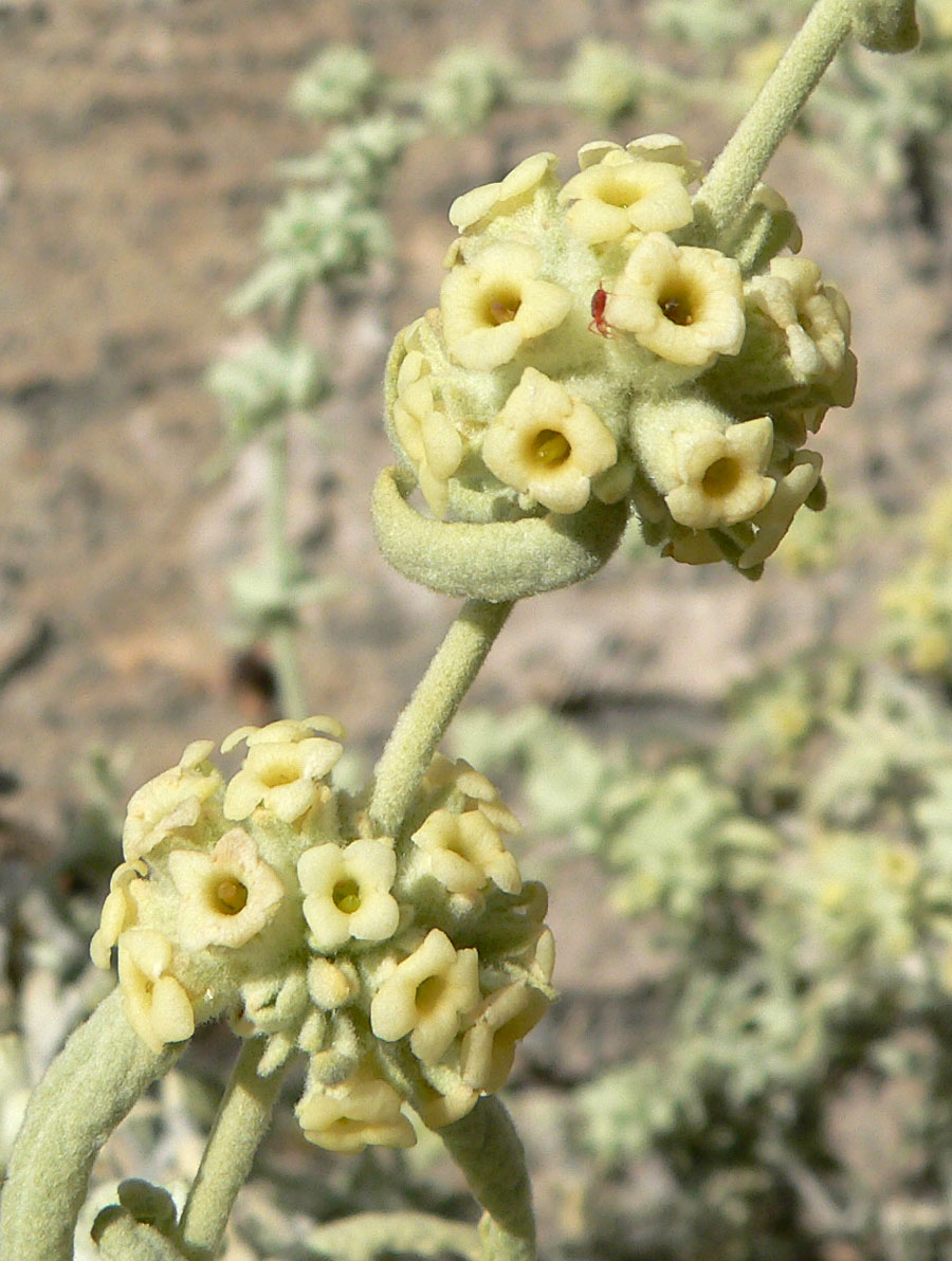 Buddleja utahensis — Panamint butterfly bush. At Red Rock Canyon in the northeastern Mojave Desert, in Clark County, southern Nevada.